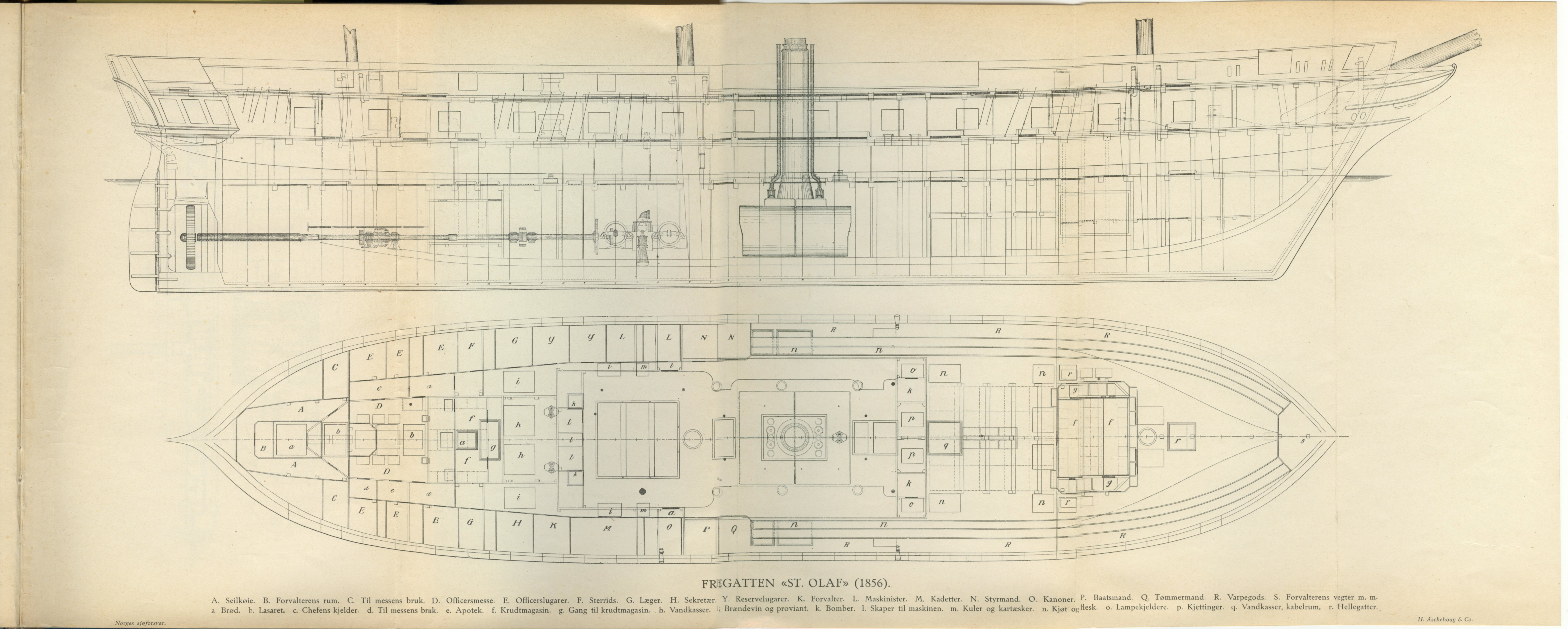 The Norwegian frigate St. Olaf, measuring 70,8x12,8x5,7 m, depl. 2182 tonnes. One steam engine, 1200 i. hk. Max speed (engine only:) 10,5 knots. Image is merged from several photos, and is not completely accurate.